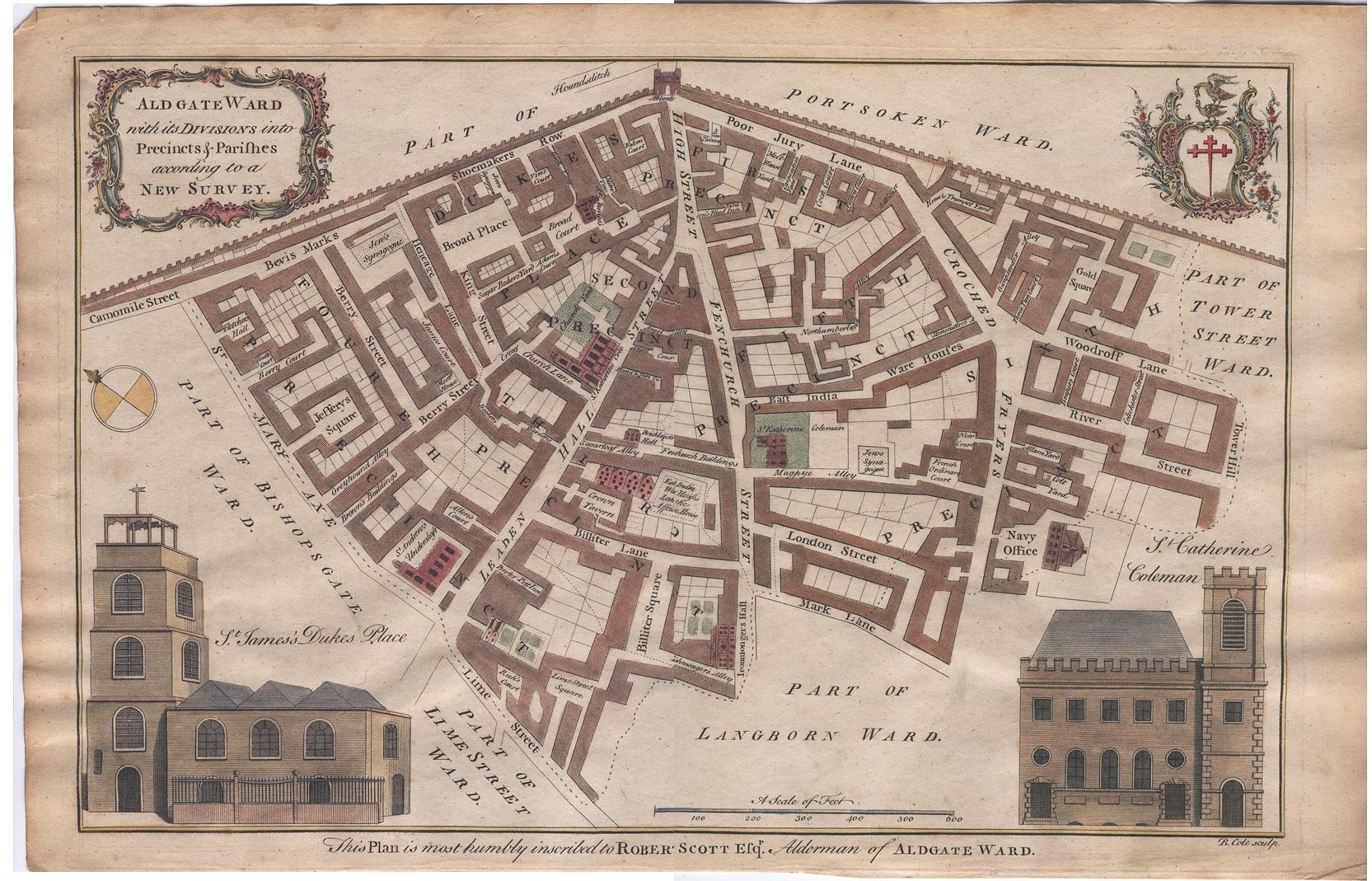 Aldgate Ward with itâ€˜s divisions into Precincts and Parishes according to a new Survey 1754. B. Cole Source